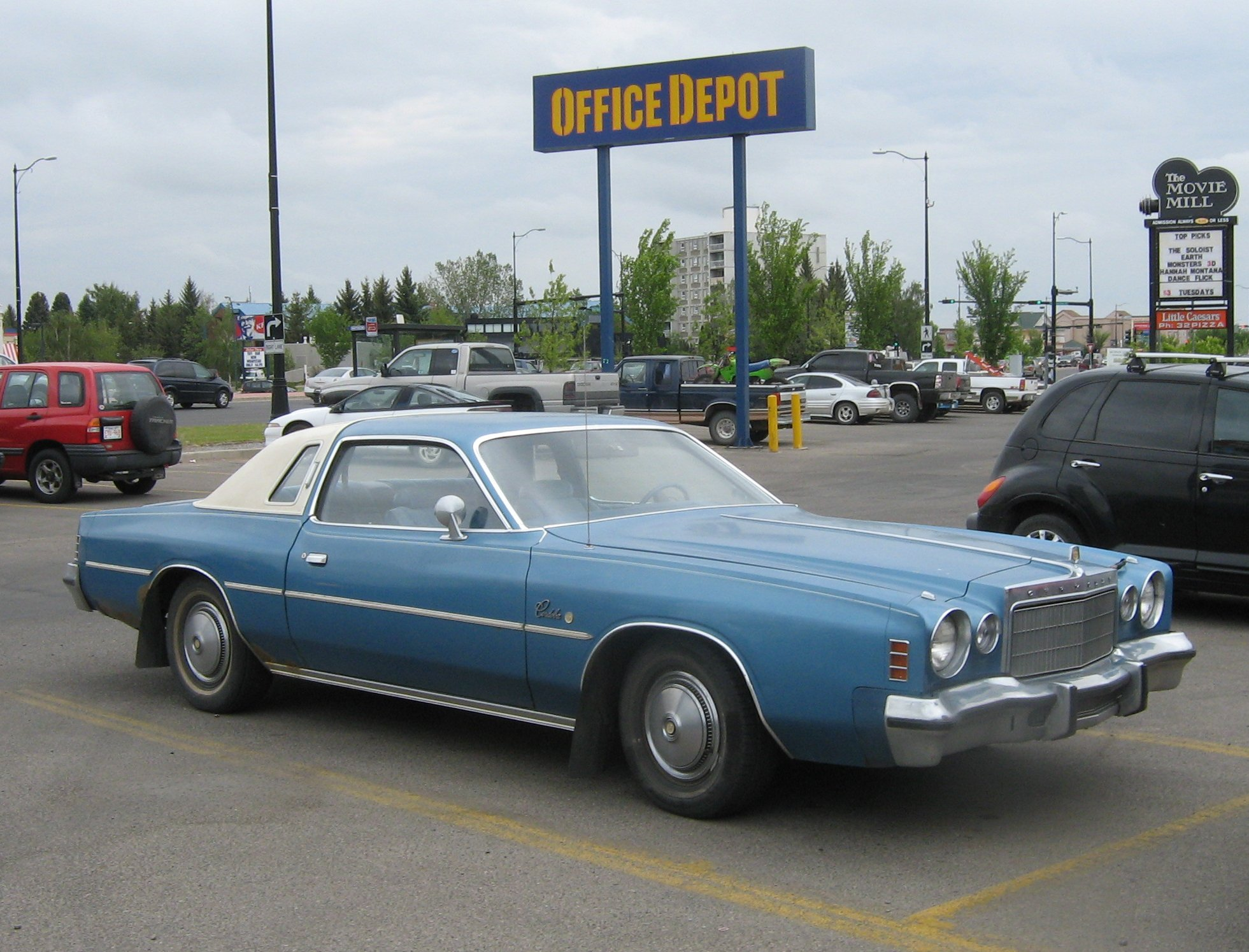 1975 Chrysler Cordoba but sadly with the leather